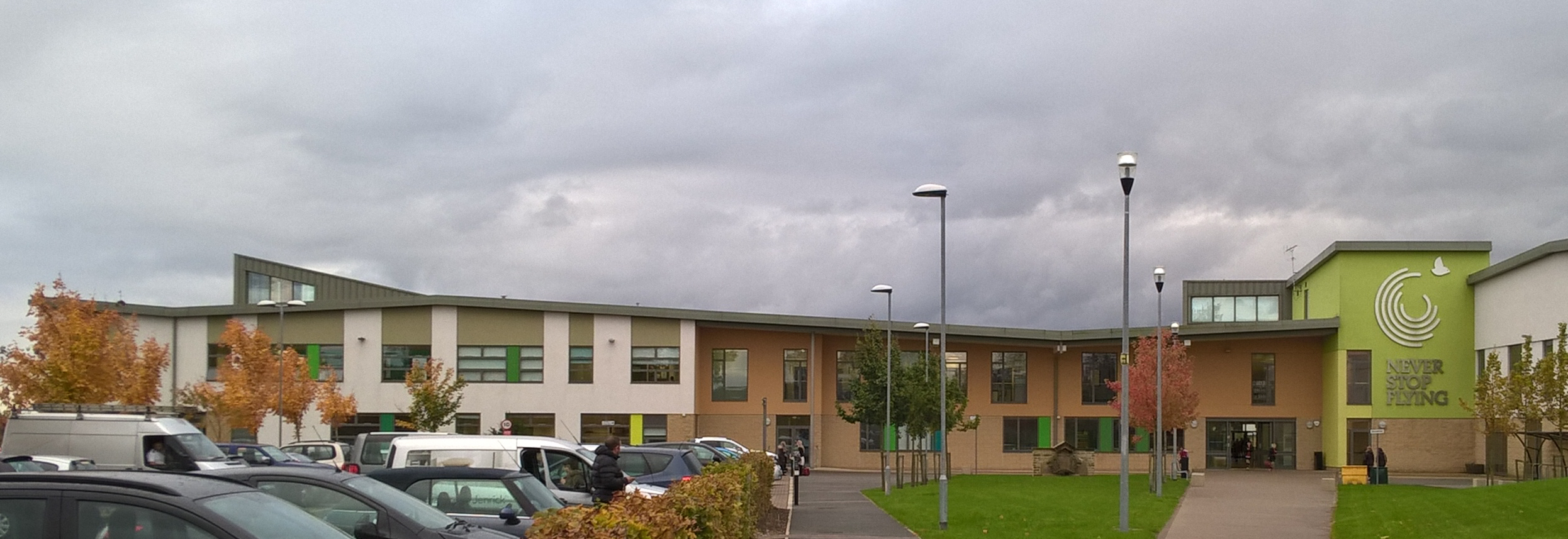 Penistone Grammar School, front view of main buildings